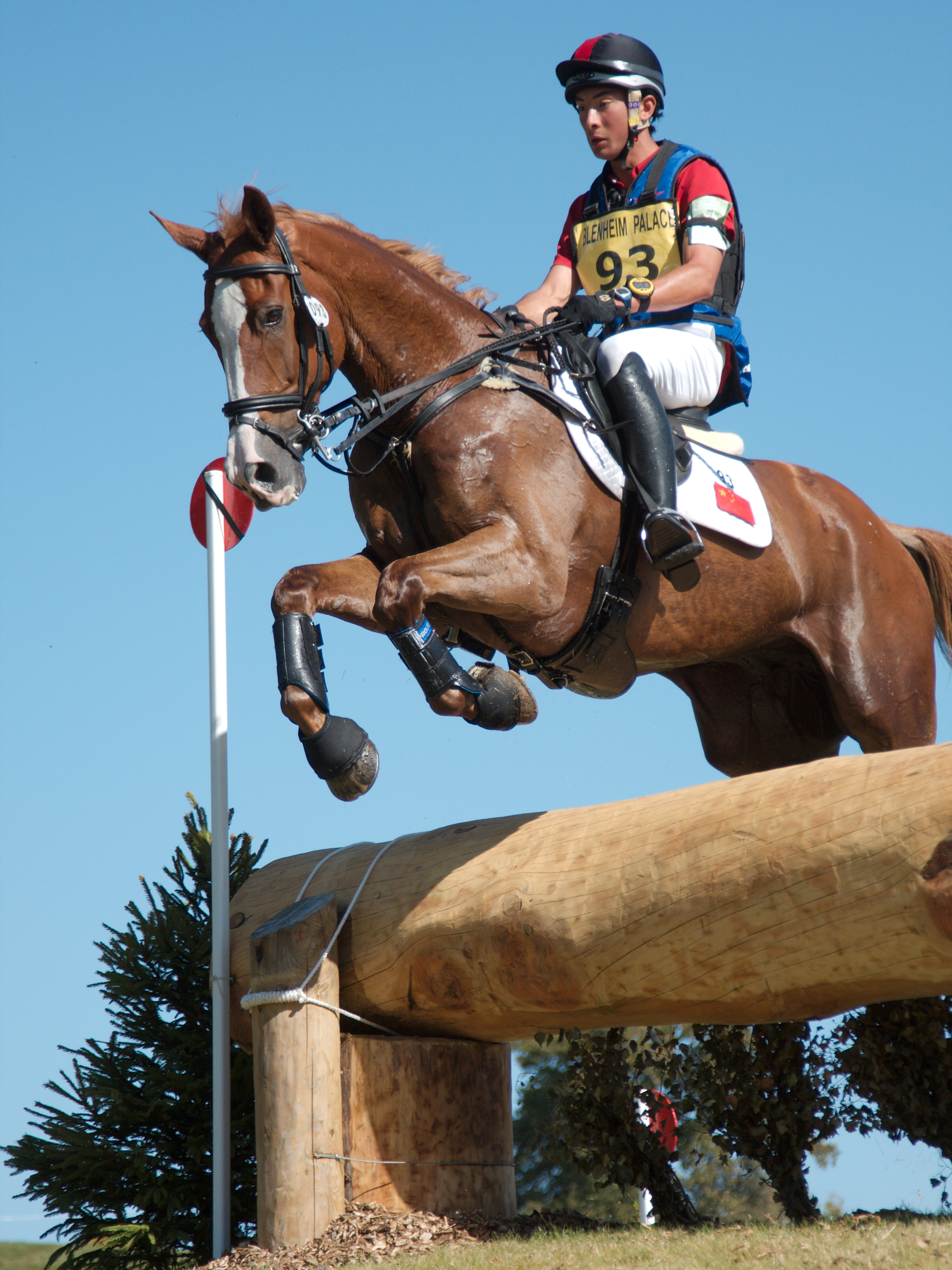 Alex Hua Tian and Jeans during the cross-country phase of Blenheim Palace International Horse Trials 2009.